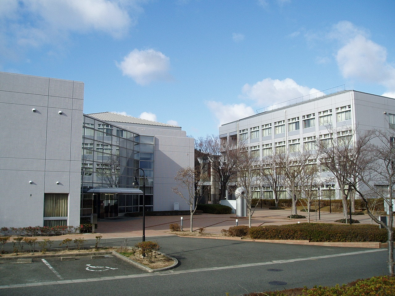 Kobe City College of Technology. The main bldg. (left) and the Department of Civil Engineering (right)